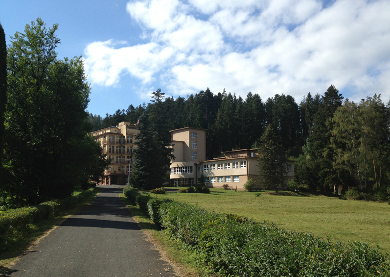 Hospital in Kvetnica